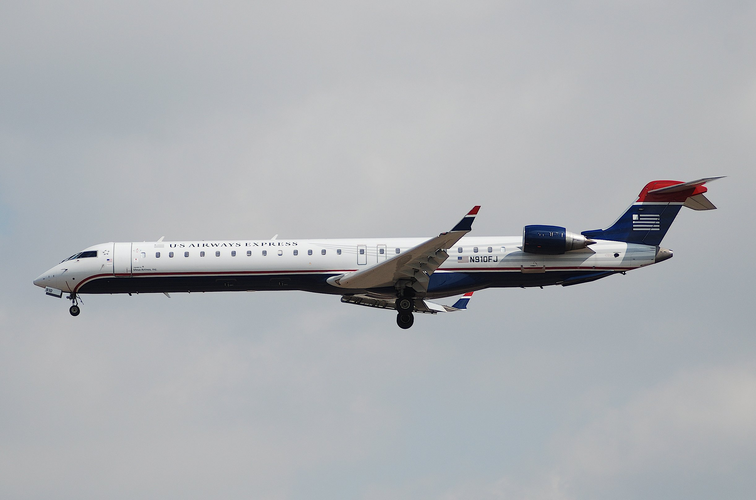 US Airways Express Canadair CRJ-900; N910FJ@LAX;21.04.2007/466gq